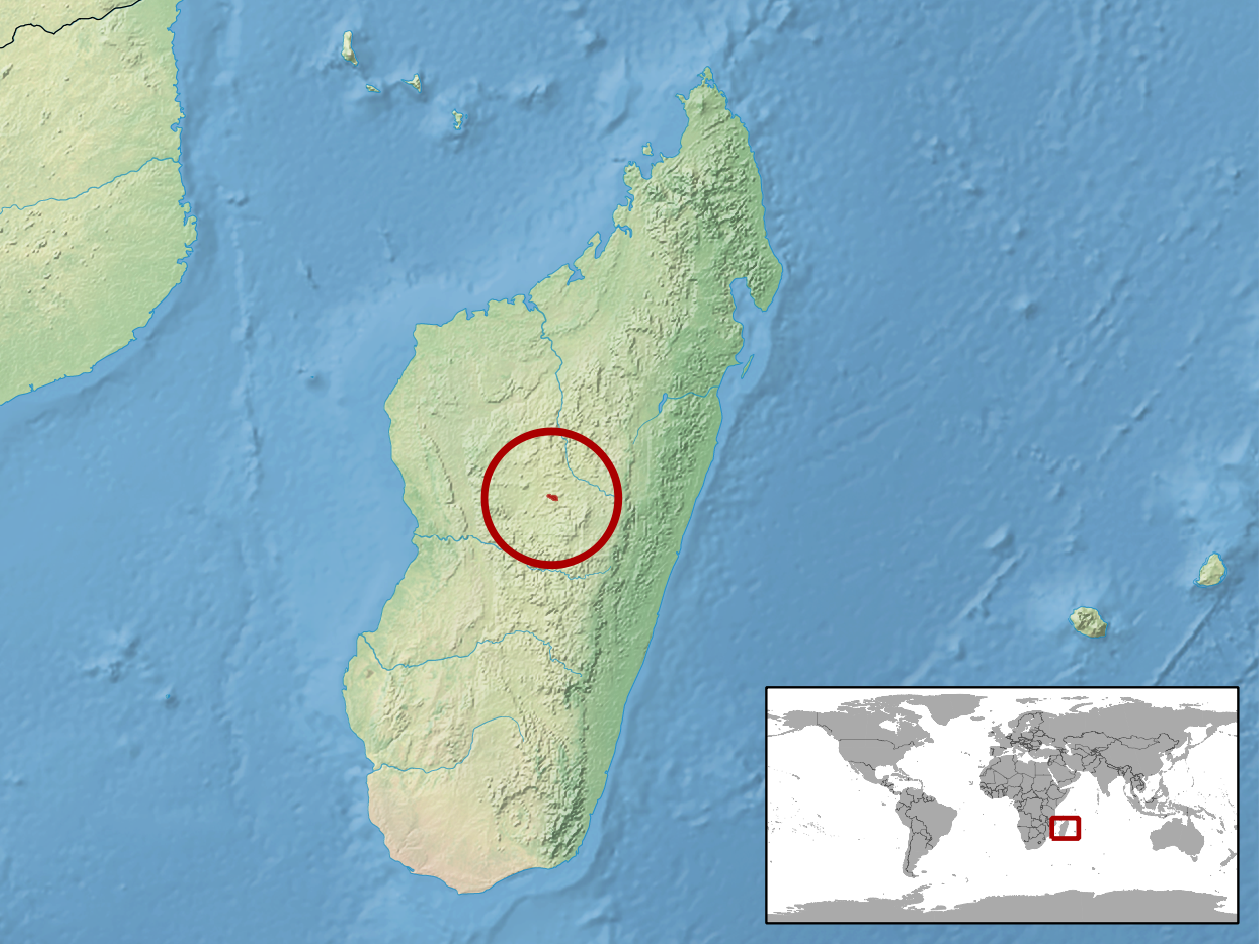 geographic distribution of Lygodactylus blancae (Native: Madagascar)